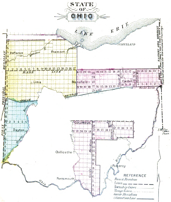 Page 93 Subdivisions of the Public Lands, Described and Illustrated, with Diagrams and Maps